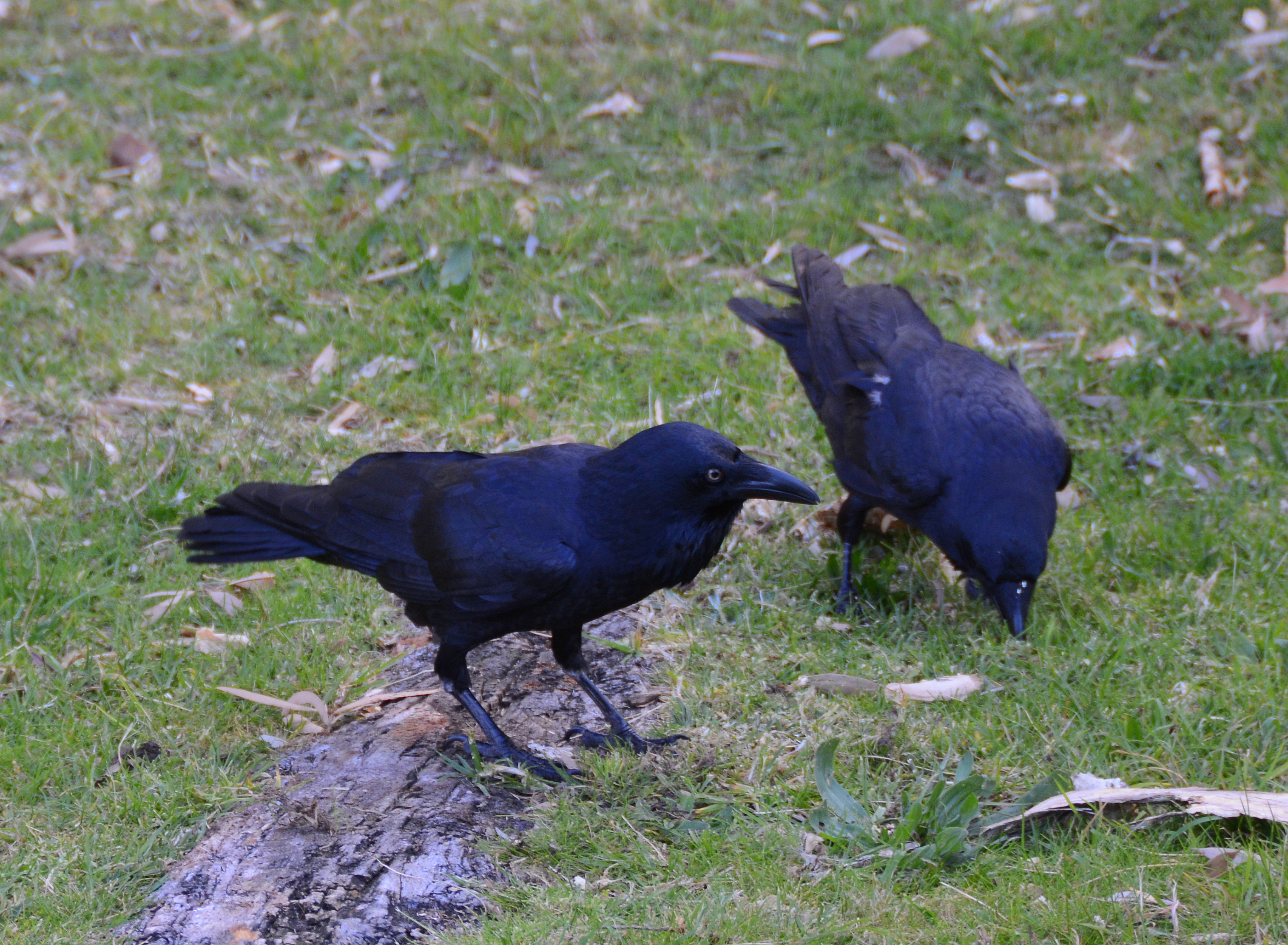 Little ravens, Centennial Park, Sydney